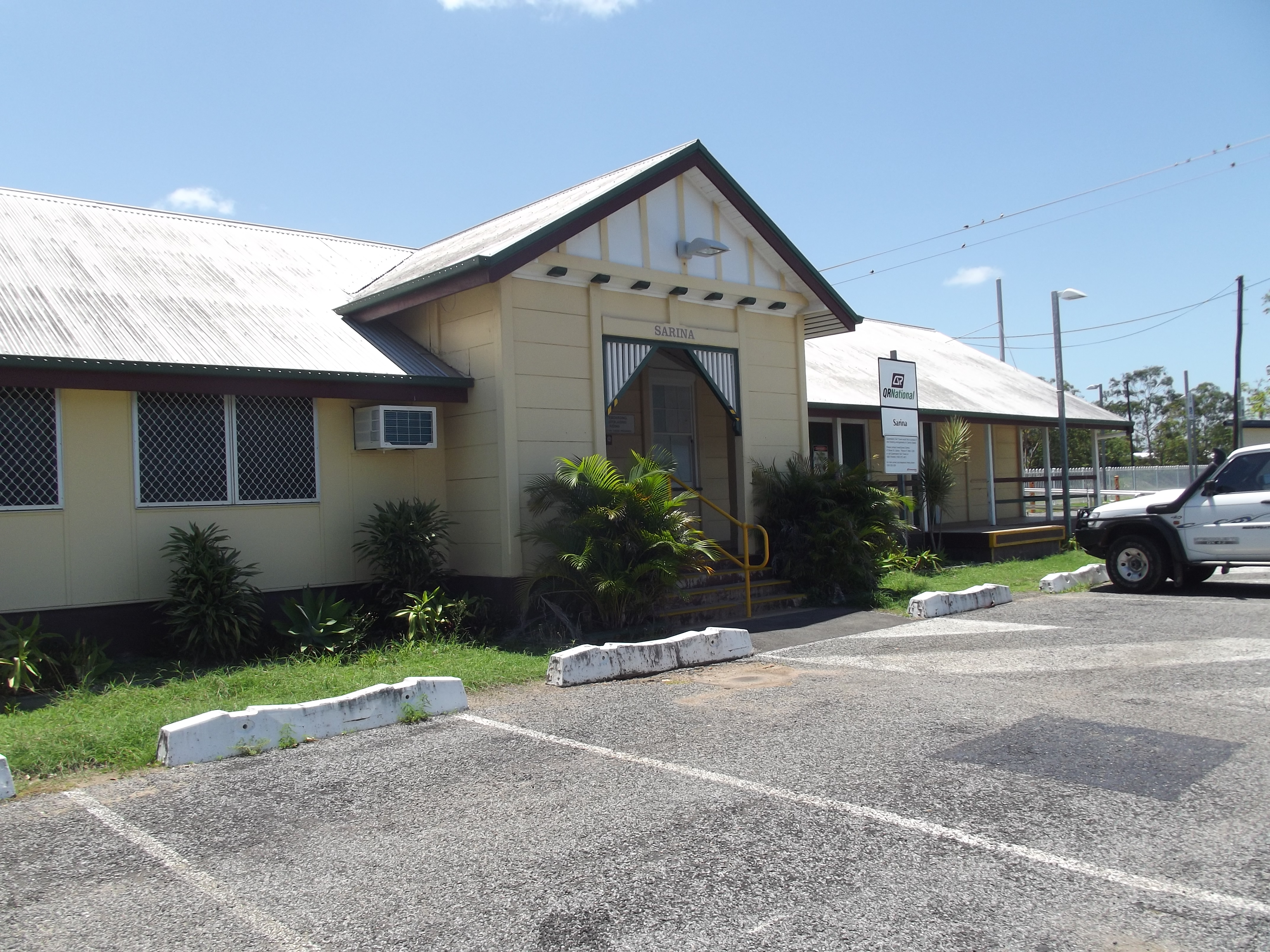 Sarina railway station, a stop on the North Coast line.